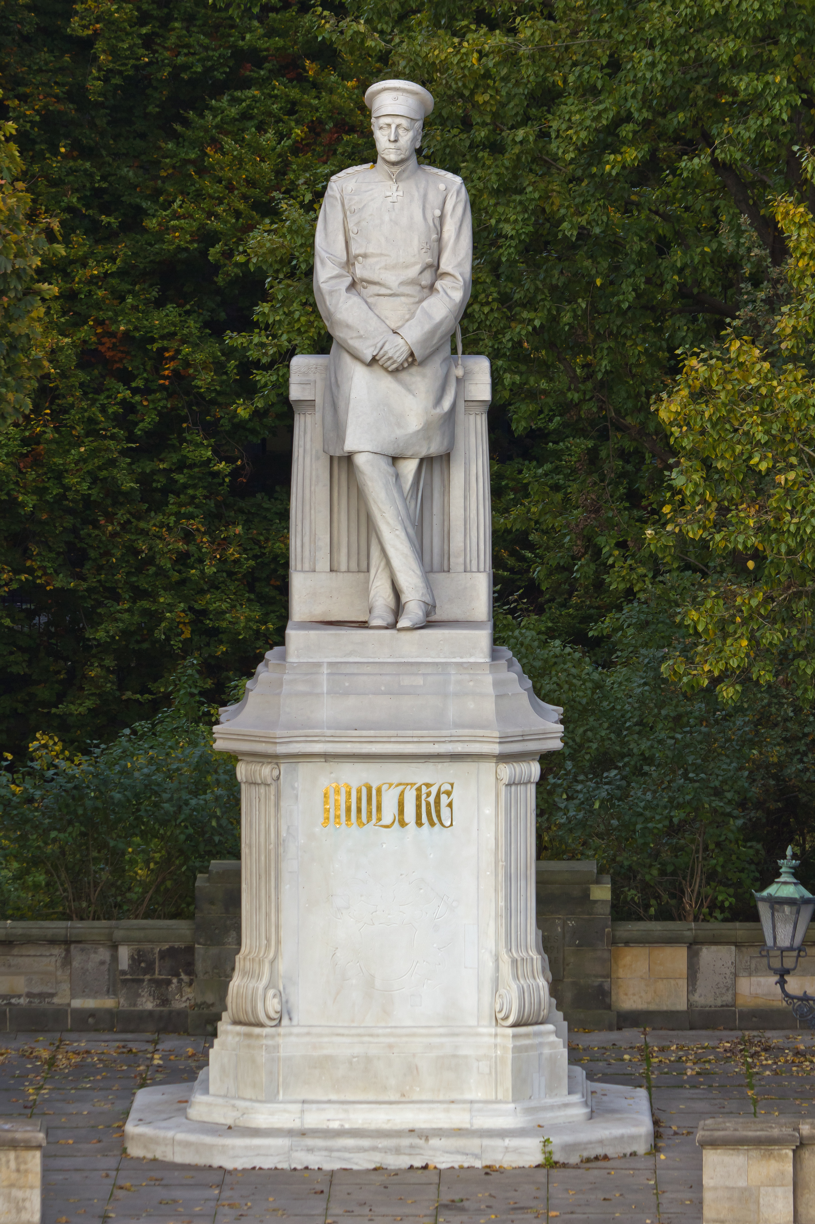 View from the Victory Column to the Moltke statue, Berlin, Germany